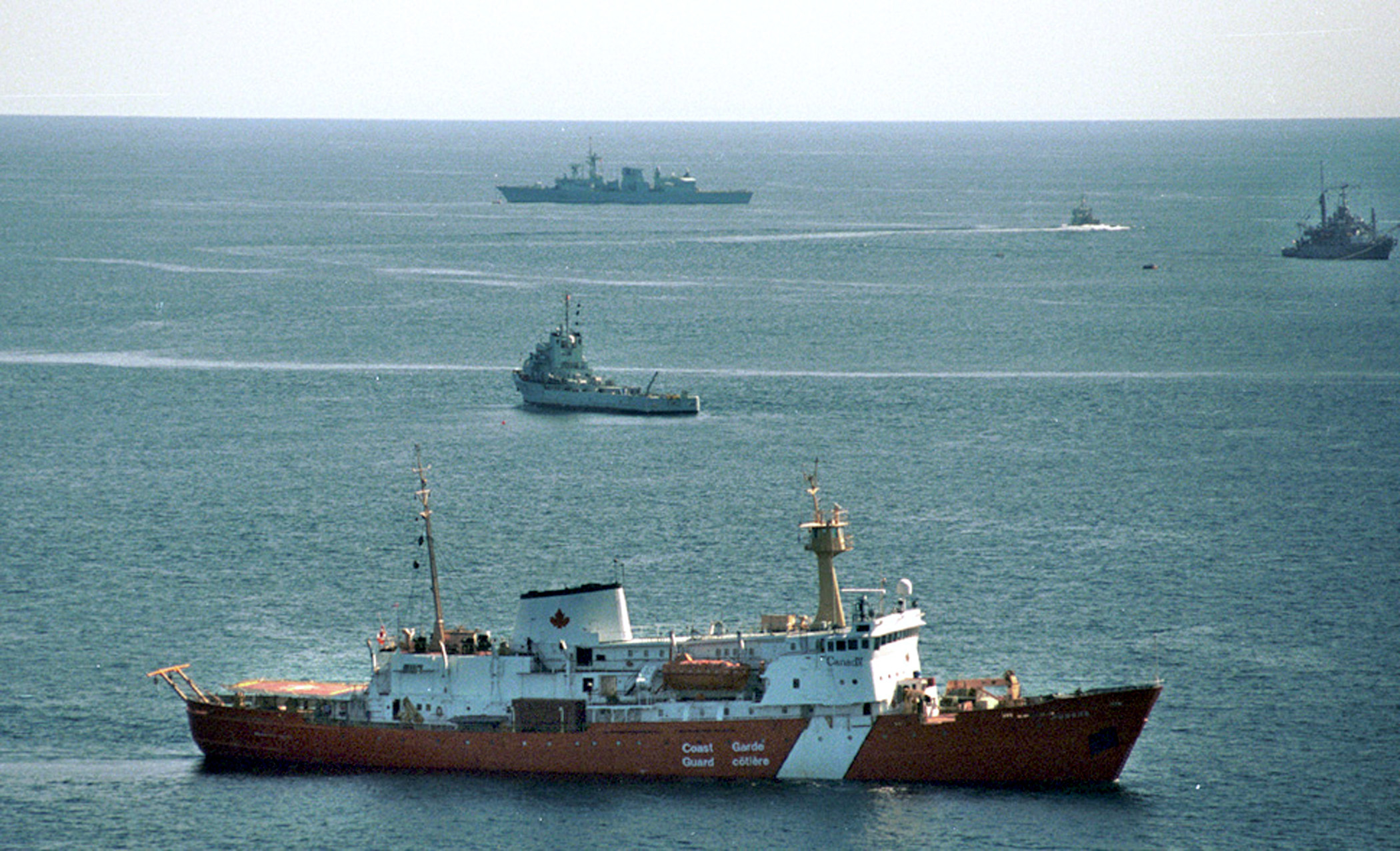 Original caption reads: "Canadian Coast Guard Cutter CCGV Hudson (foreground) conducts Laser Line Scanning (LLS) operations with the latest U.S. Navy high-tech underwater search equipment at the crash site of Swissair Flight 111."